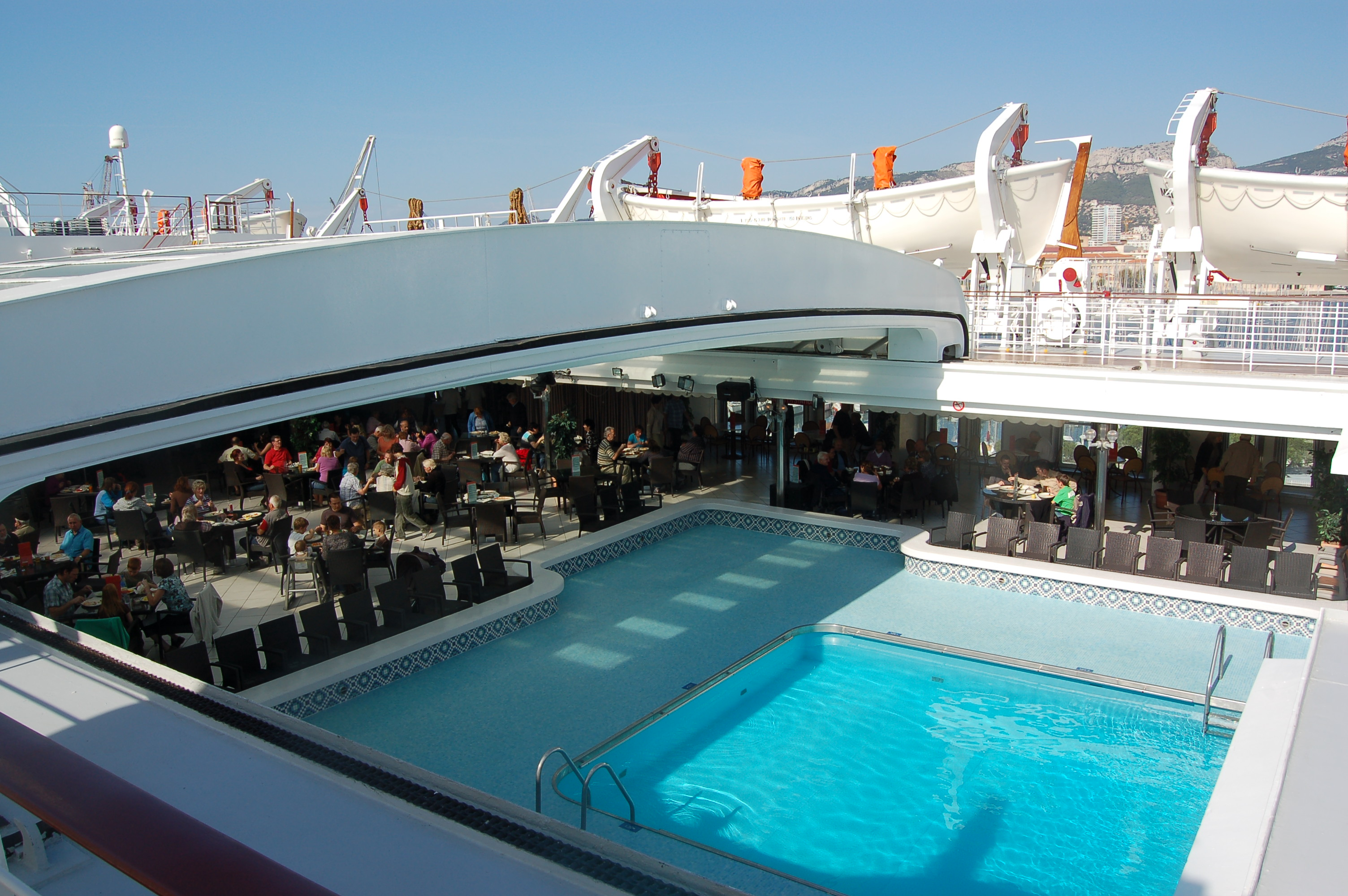 MSC Melody at Toulon, France, view of the midships pool.